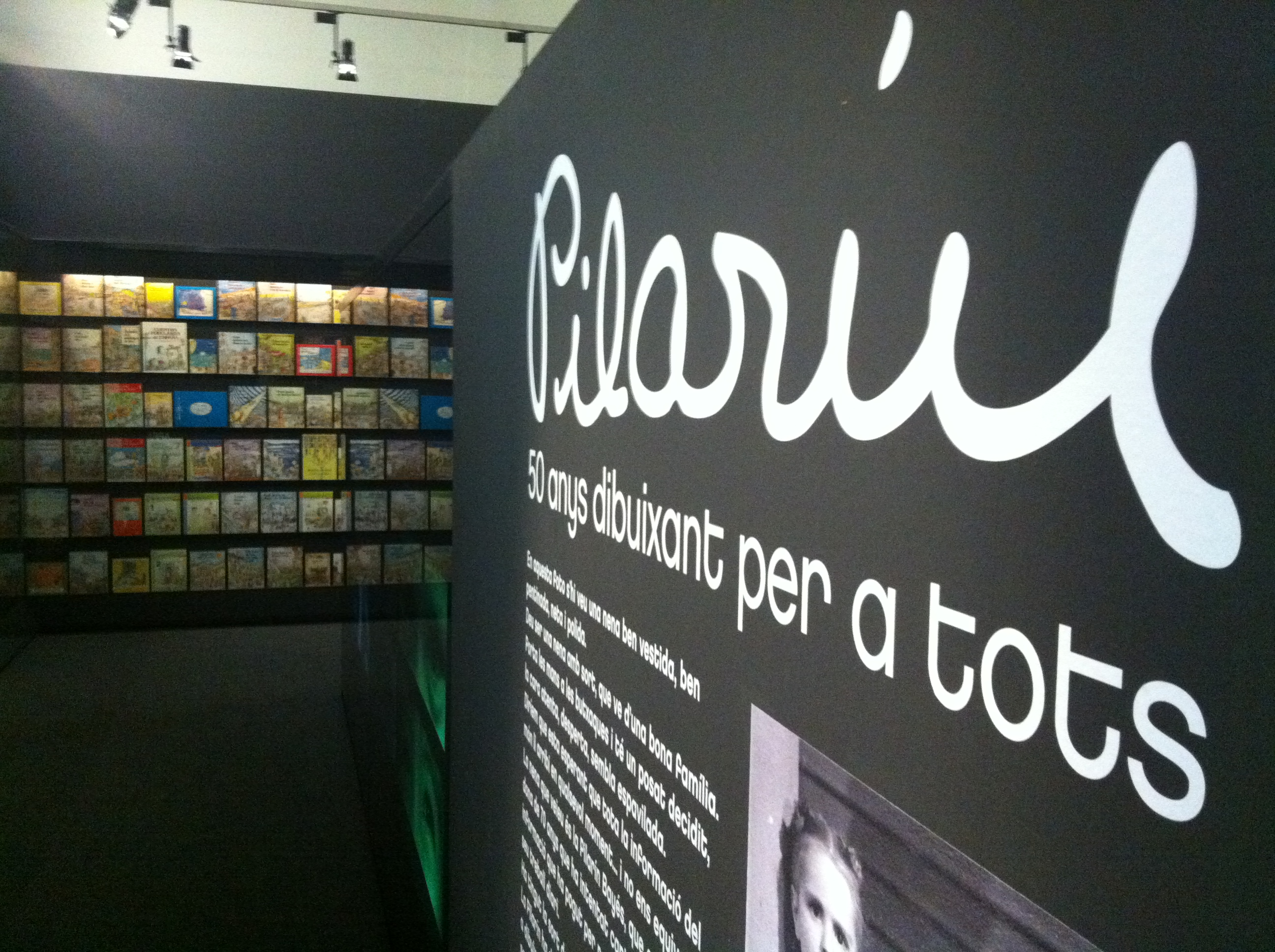 Pilarín Bayés exhibit at Palau Robert in Barcelona. April 2012